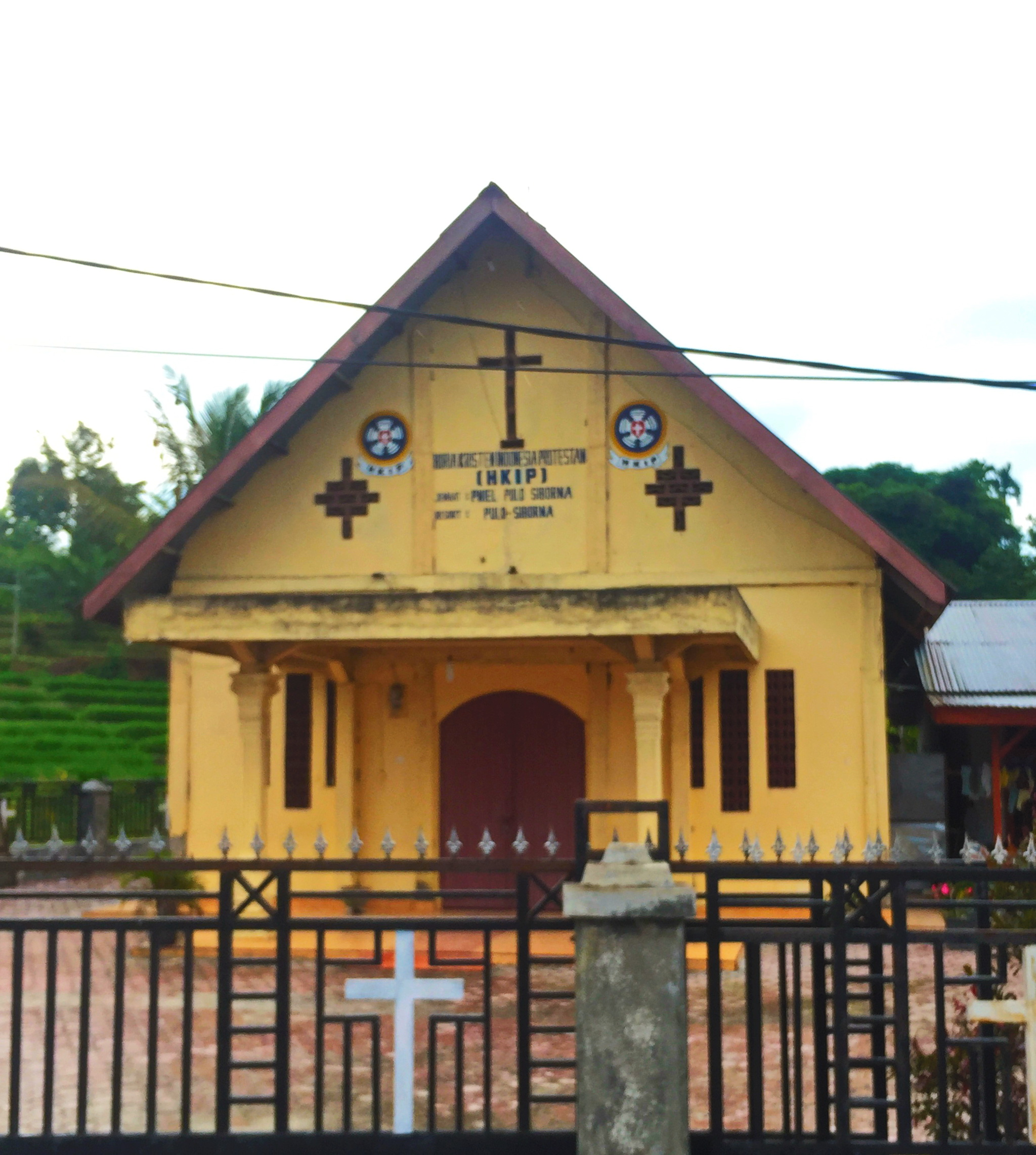 HKIP Pniel Pulo Siborna, Church in Siborna, Panei, Simalungun.